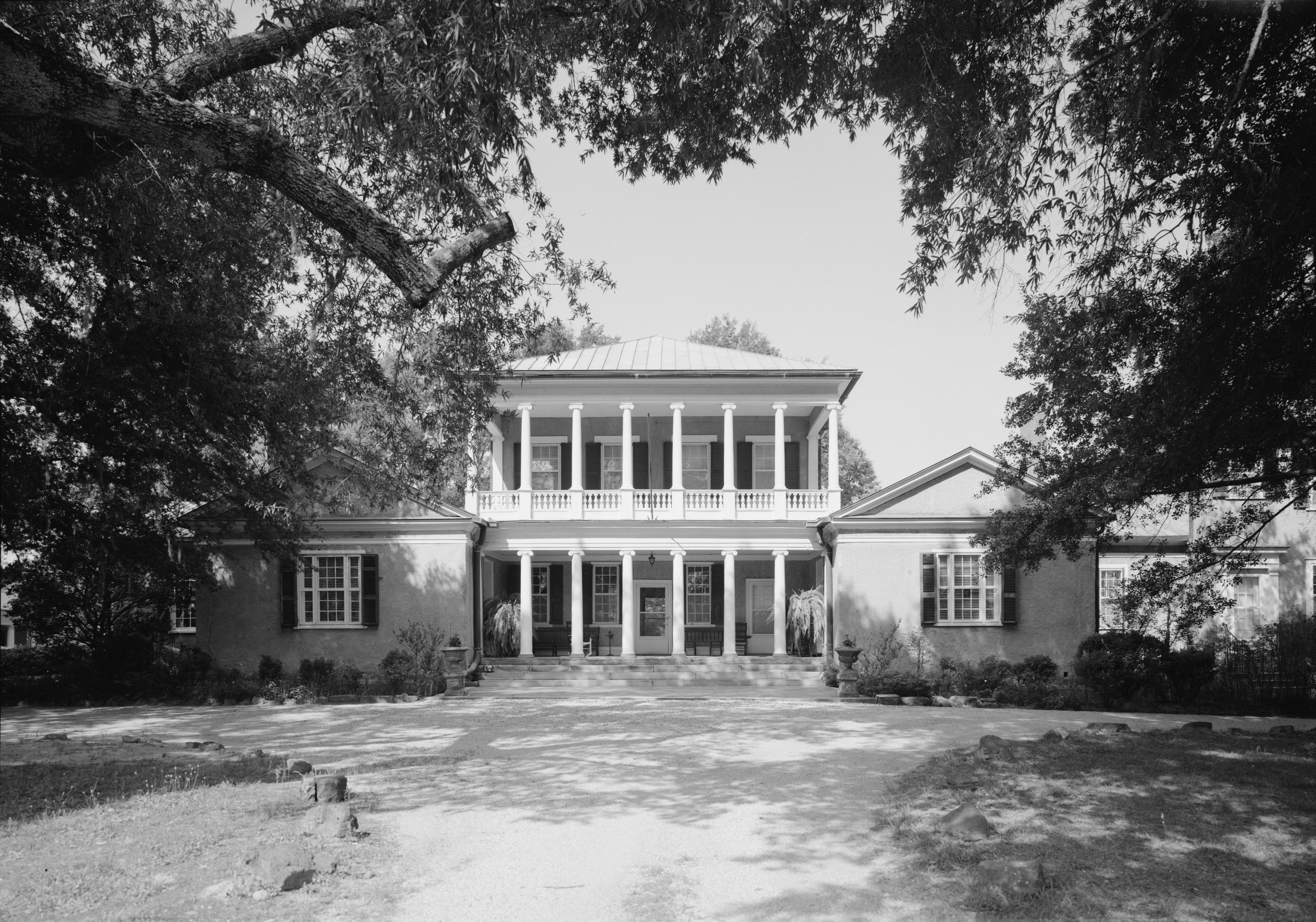 Borough House Plantation — West Side State Route 261, about .1 mile south side of junction with old Garners Ferry Road, Stateburg, Sumter County, South Carolina. 1960 image: HABS—Historic American Buildings Survey of South Carolina (cropped).